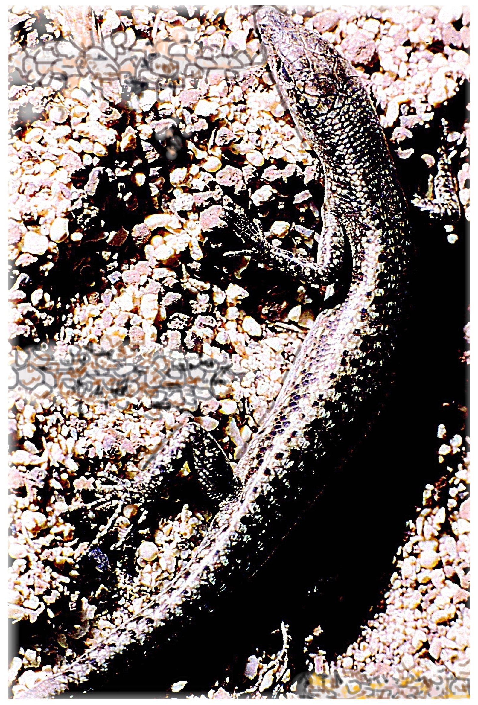 Bouton's skink (Cryptoblepharus boutonii) on Ile Plate, Mauritius